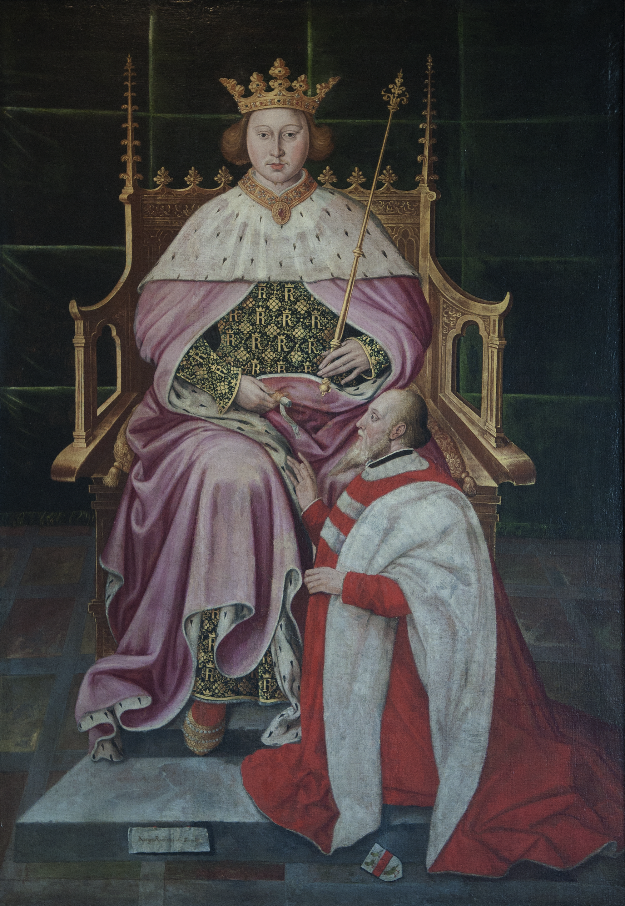 Unknown - King Richard II (1377-1399) and Ralph de Lumley, 1st Baron Lumley (decapitated) - Leeds Castle